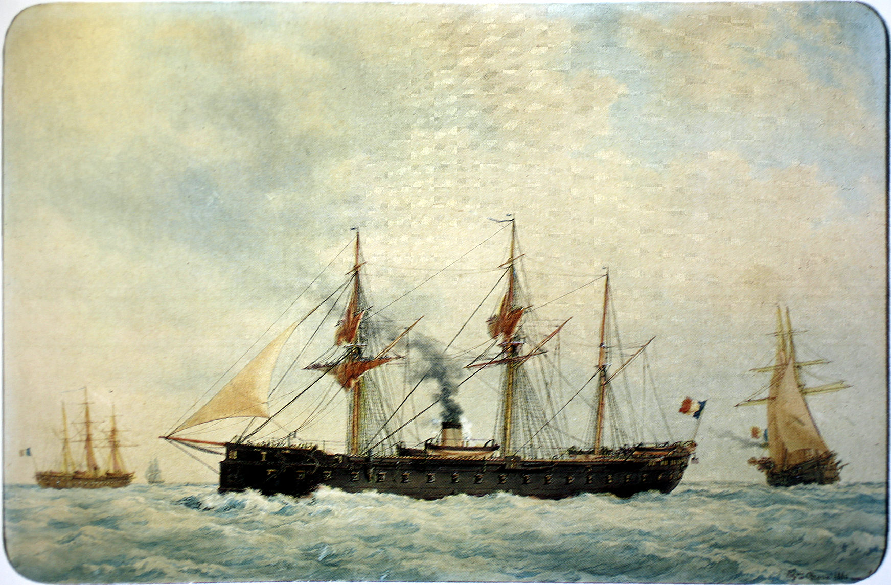 The ironclad Gloire